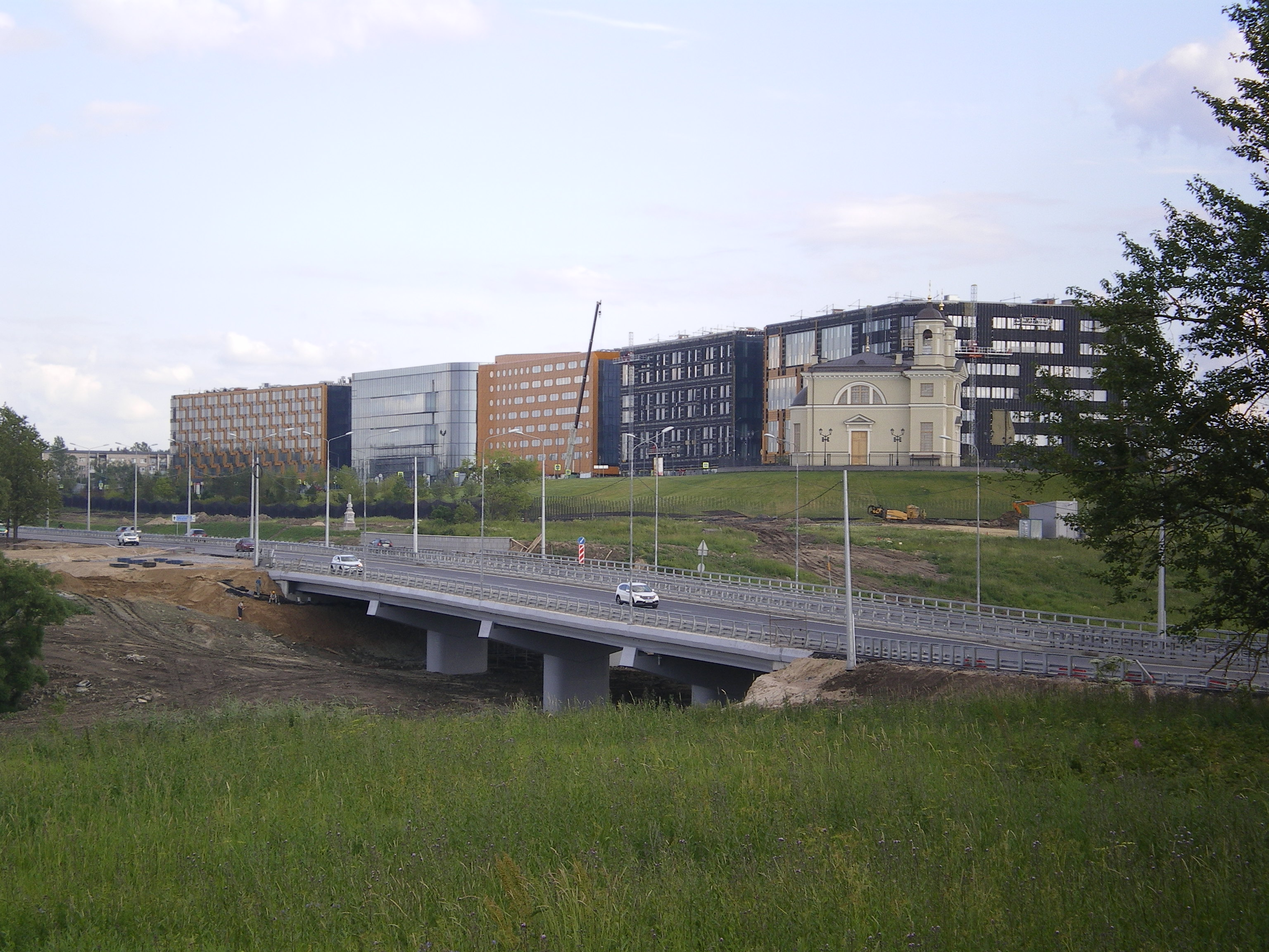 Expoforum